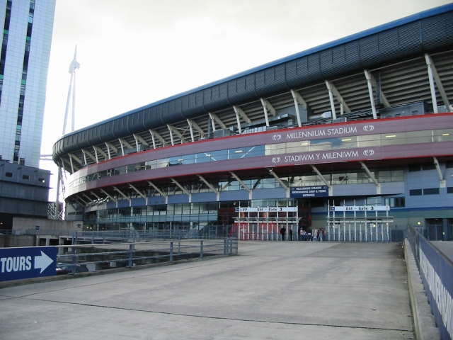 Millennium Stadium and concourse Entrance to gate 3 and the merchandise shop.